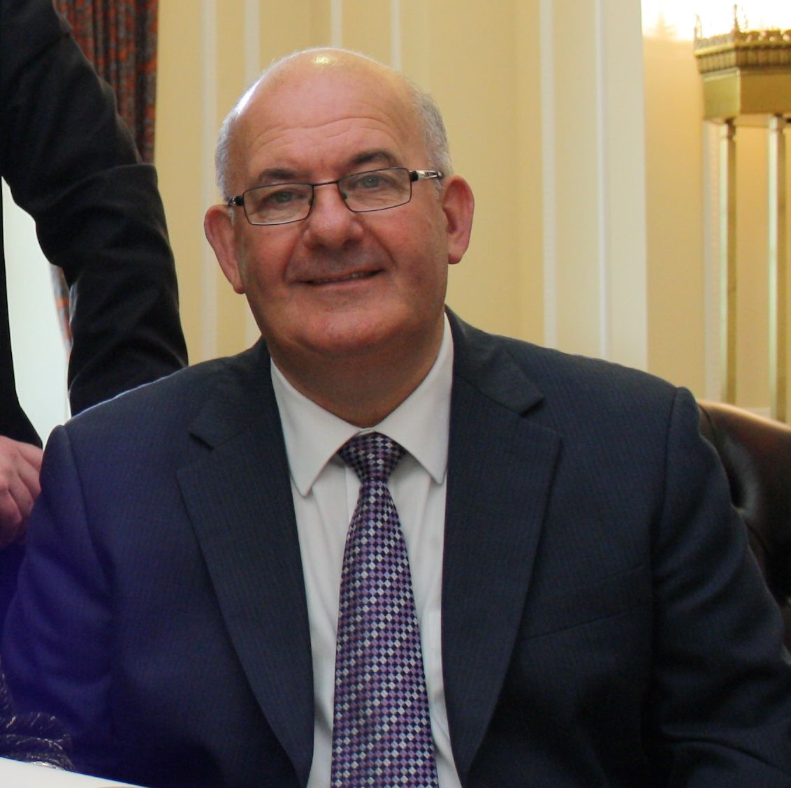 William Hay